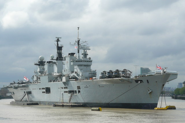 HMS Illustrious at Greenwich